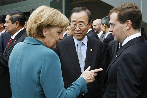 TOYAKO-ONSEN, HOKKAIDO, JAPAN. With German Federal Chancellor Angela Merkel and Secretary-General of the United Nations Ban ki moon.